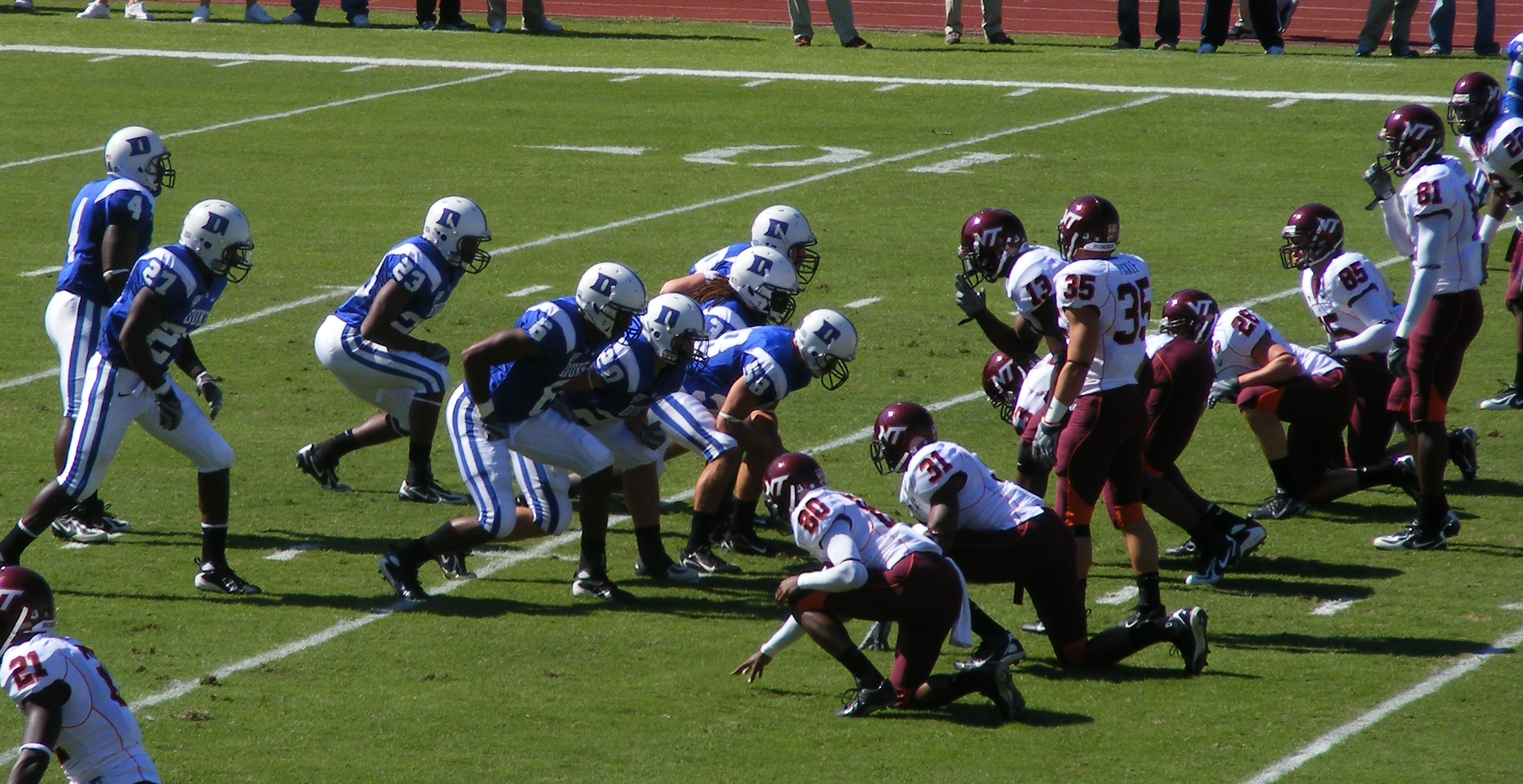 Virginia Tech @ Duke 2007, Hokies in a punt block formation